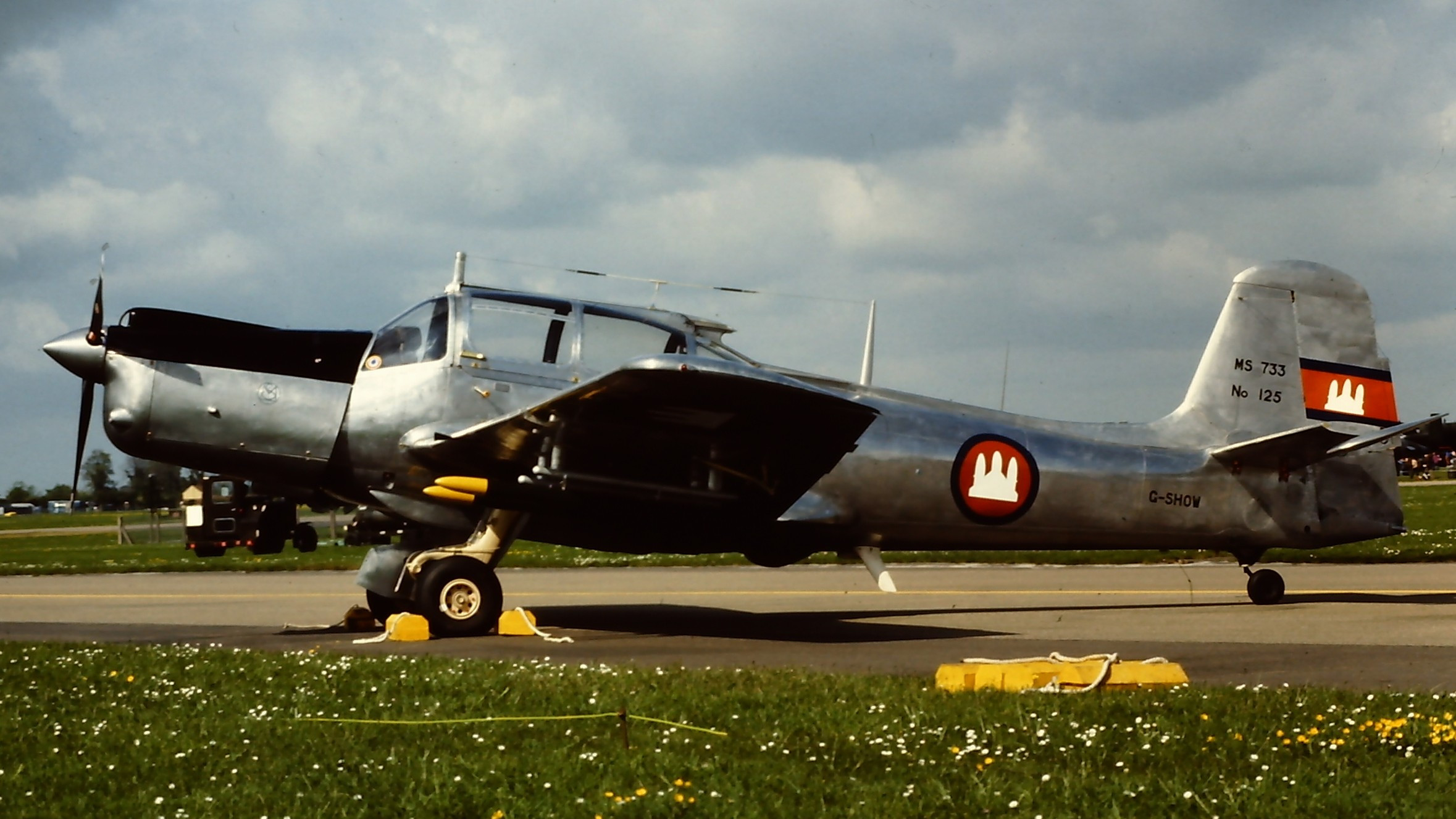 1956-built Morane-Saulnier MS.733 registered in the United Kingdom as G-SHOW but painted in the markings of the Royal Cambodian Air Force. On display at the 1981 Mildenhall Air Show.